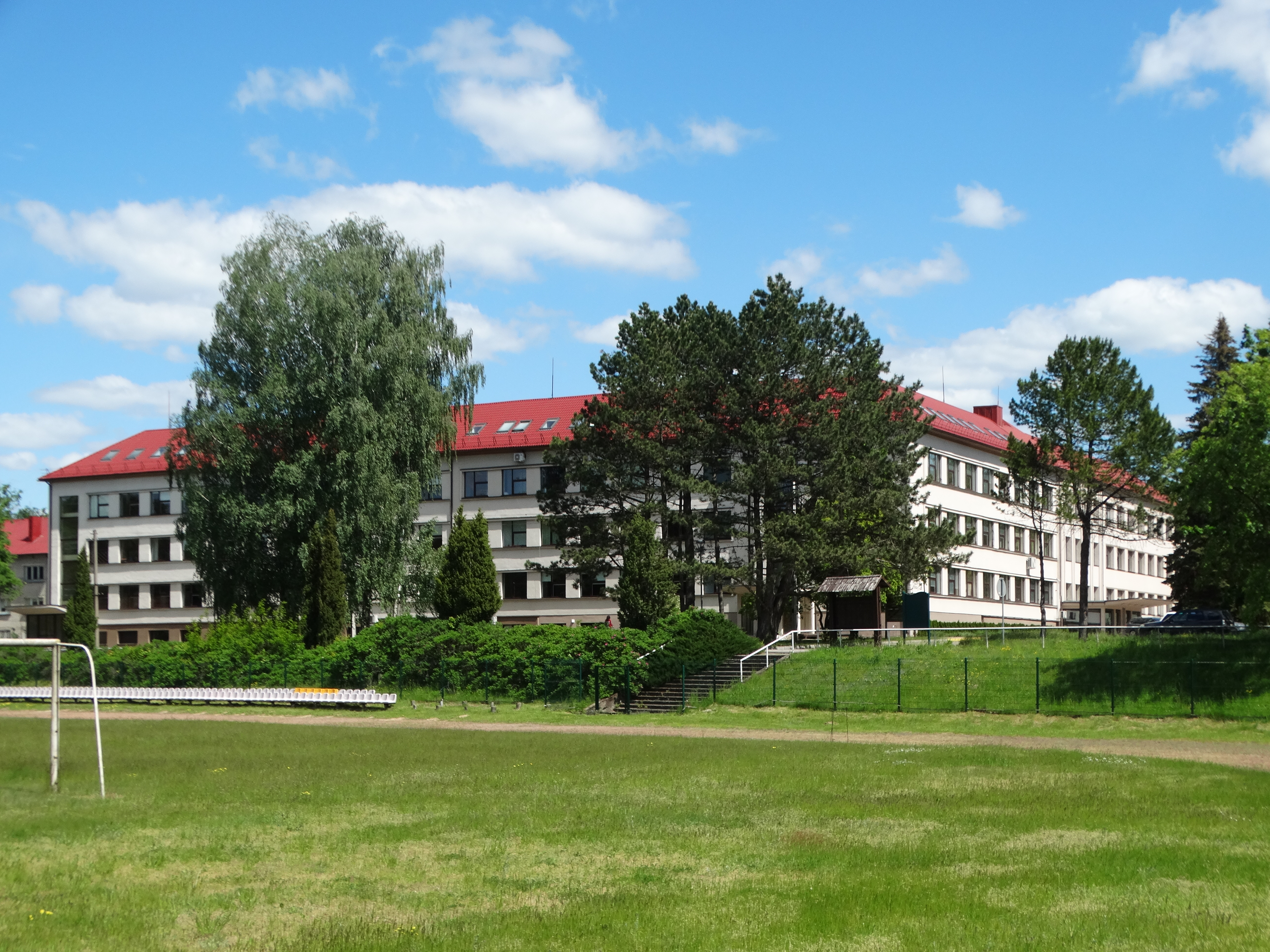 Forestry and Environmental Engineering College, Girionys, Kaunas District, Lithuania